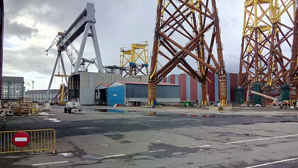 Jackets for East Anglia One offshore wind farm under construction, Navantia (as Iberdrola contractor) at Fene, Spain.